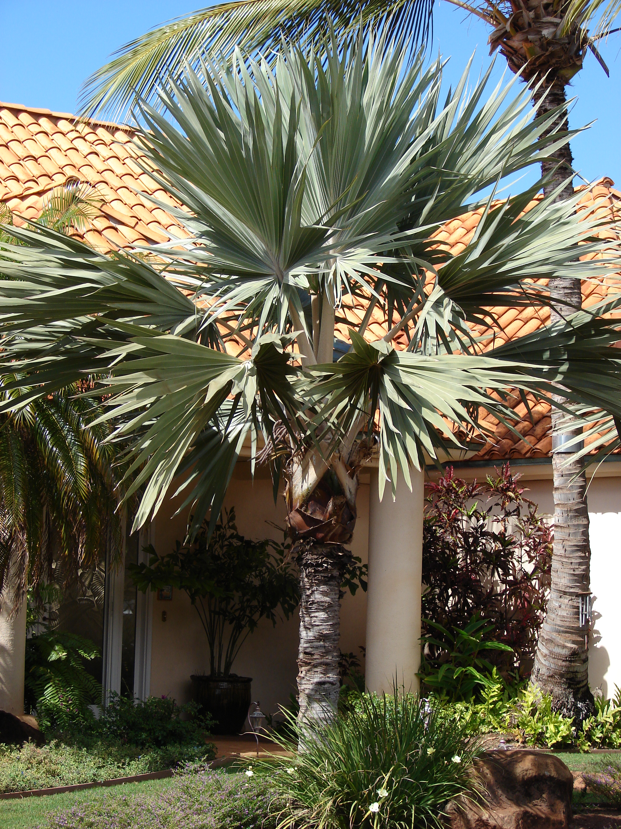 Latania loddigesii (habit). Location: Maui, Kaanapali